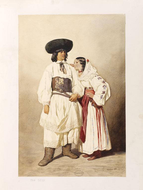 Théodore Valerio, Romanian peasants from around Lugos, 1851 FNAC PFH-8798 (62). Crayon et aquarelle sur papier, 44,7 cm x 24,7 cm. Signé, daté en bas à droite : VALERIO 1851 En dépôt à l’ENSBA depuis 1869 Beaux-Arts de Paris, photo Raphaël Caussimon ; distribution RMN-Grand Palais